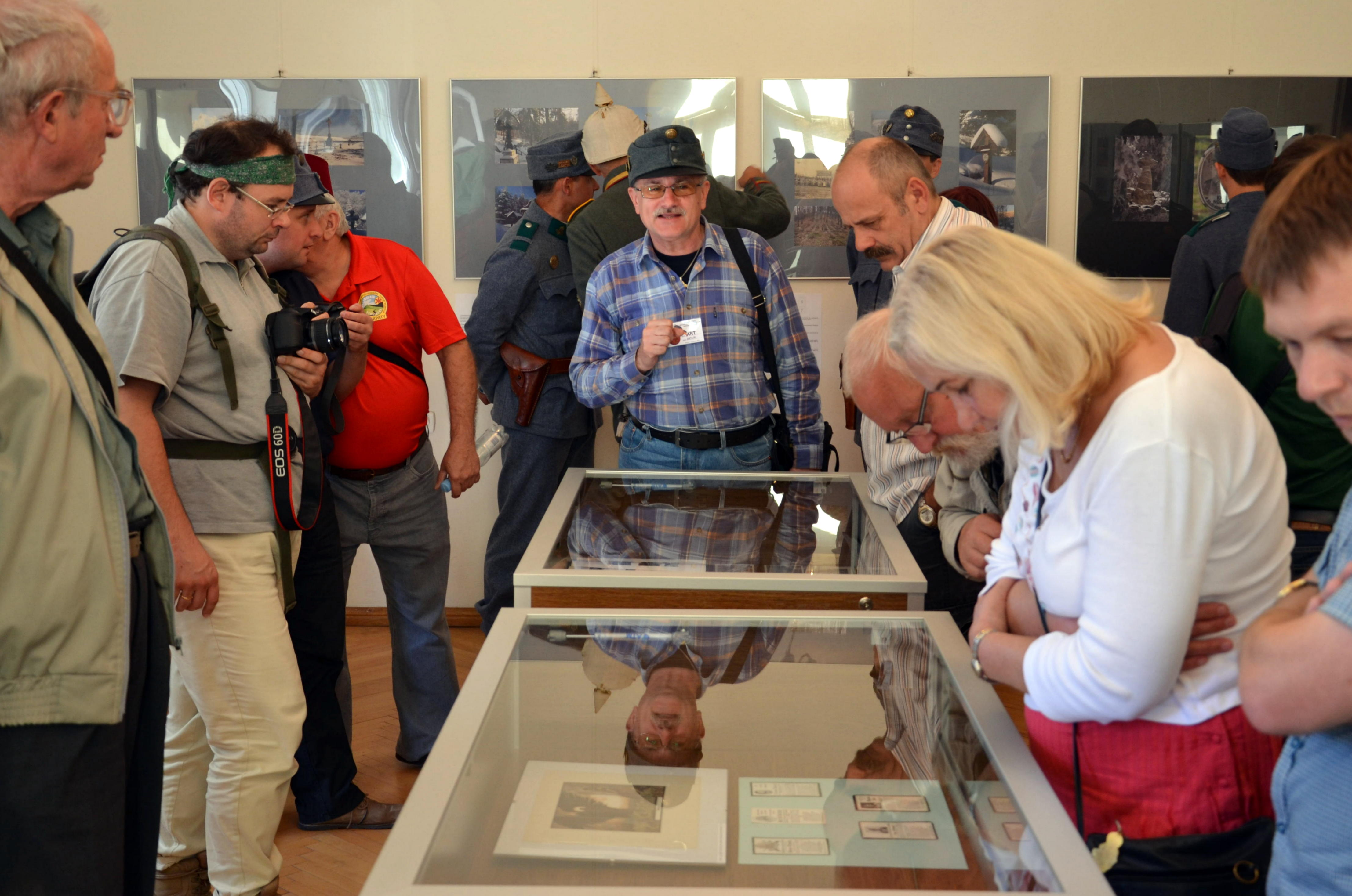 Achtes Treffen mit der österreichisch-ungarischen Geschichte in Sanok .